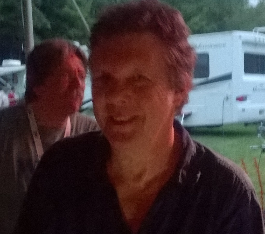 Steve Forbert poses after his set at WNTI's WNTIStage concert, Columbia, NJ